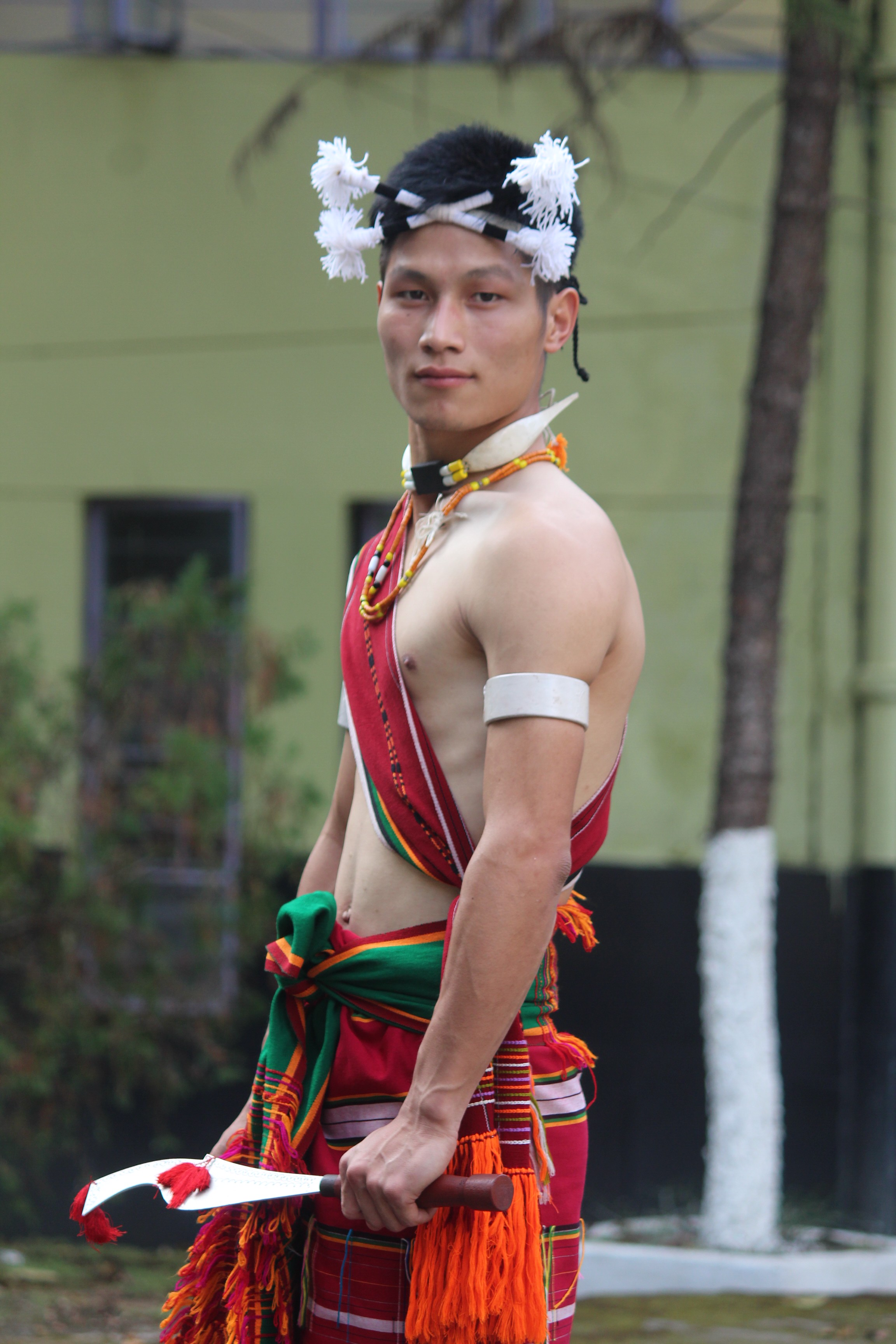 Rongmei Cultural Dress This photo has been taken in the country: India